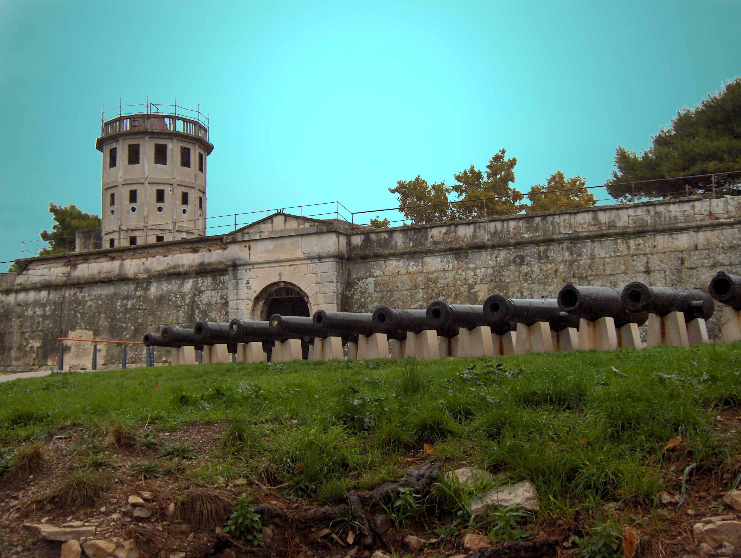 Venetian fortress (14th c.), Pula, Croatia